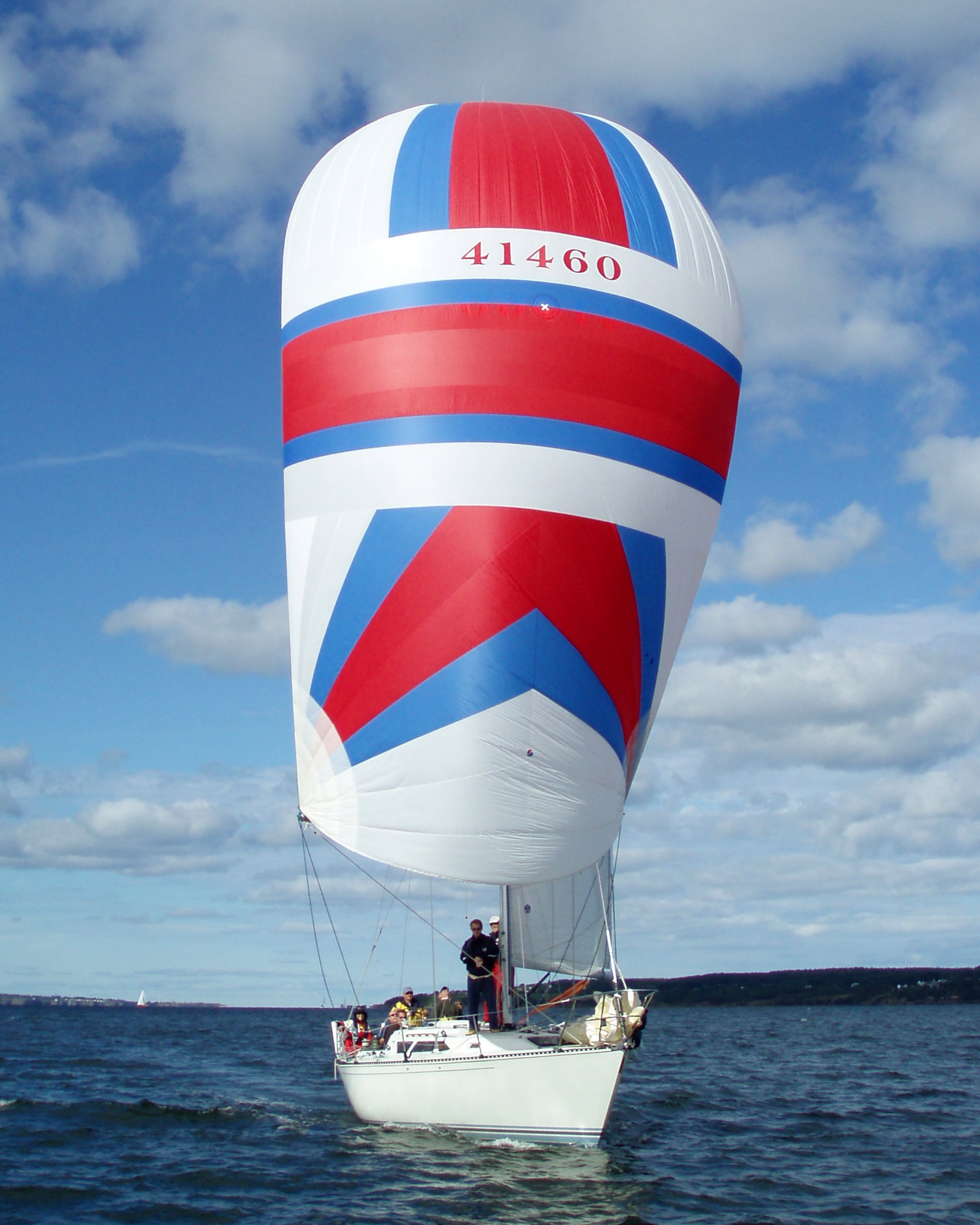 The C&C 38-3 Irish Mist sailing in Sydney Harbour, Nova Scotia, Canada.